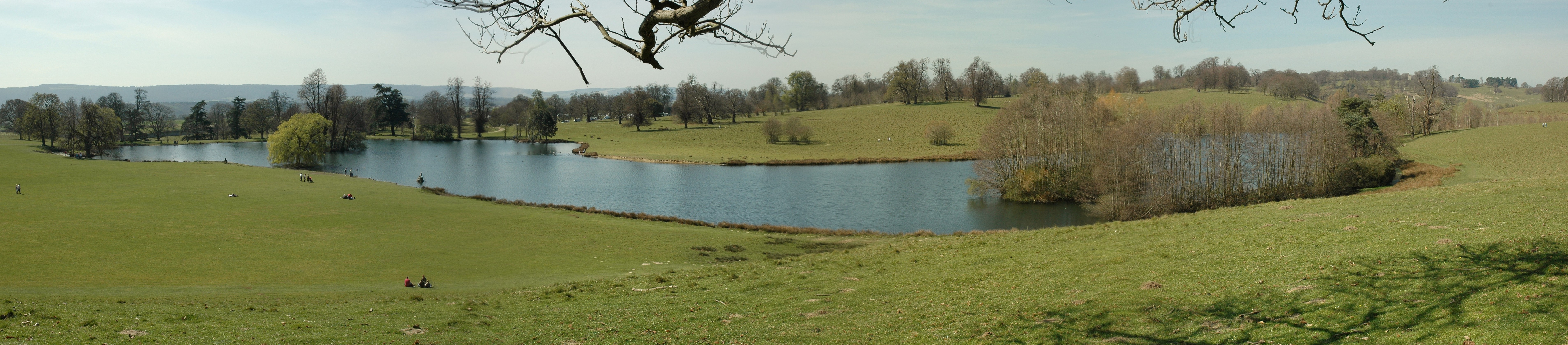 Parc de Petworth